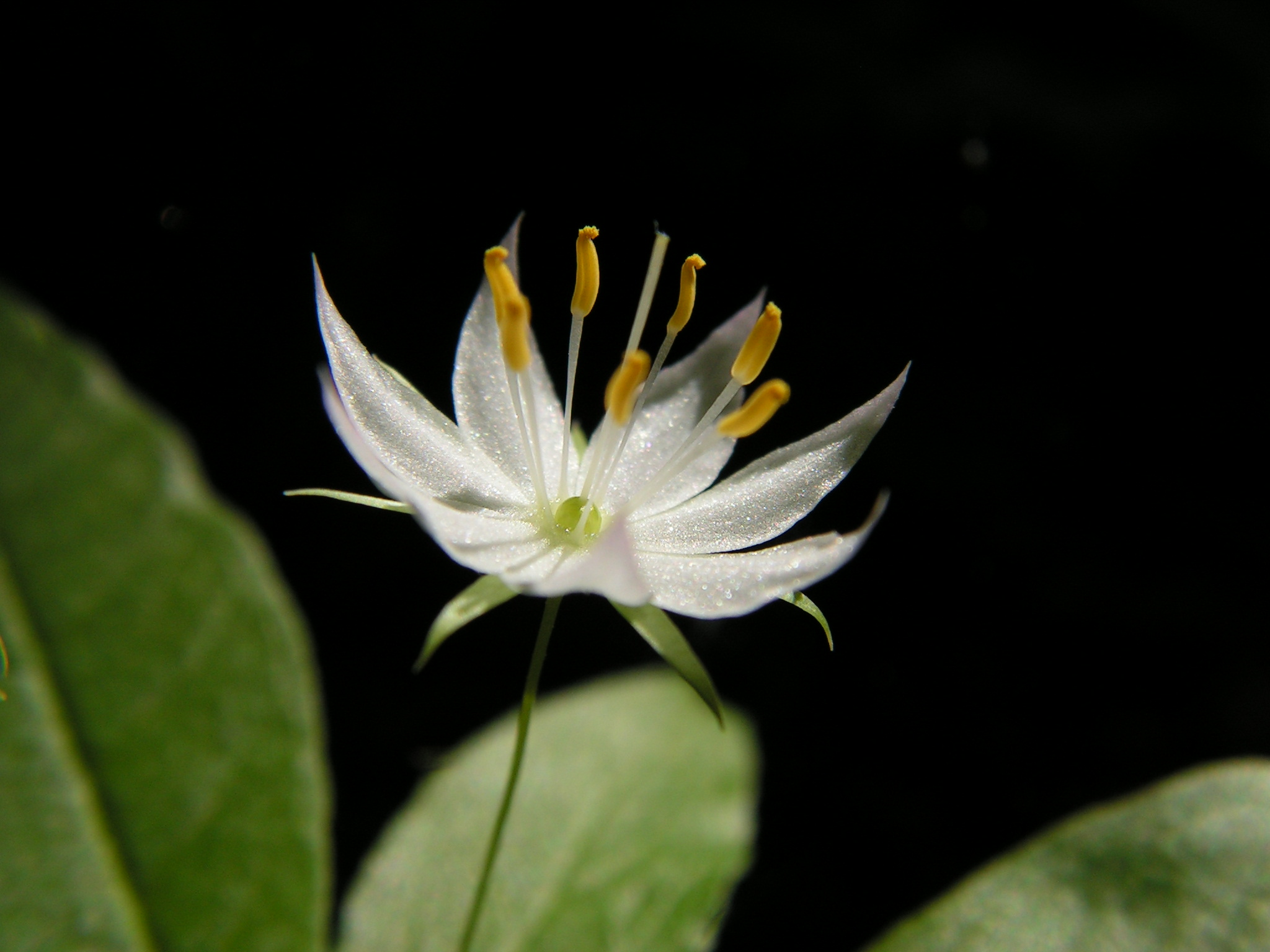 Trientalis boealis, flower, Port-au-Saumon, Quebec